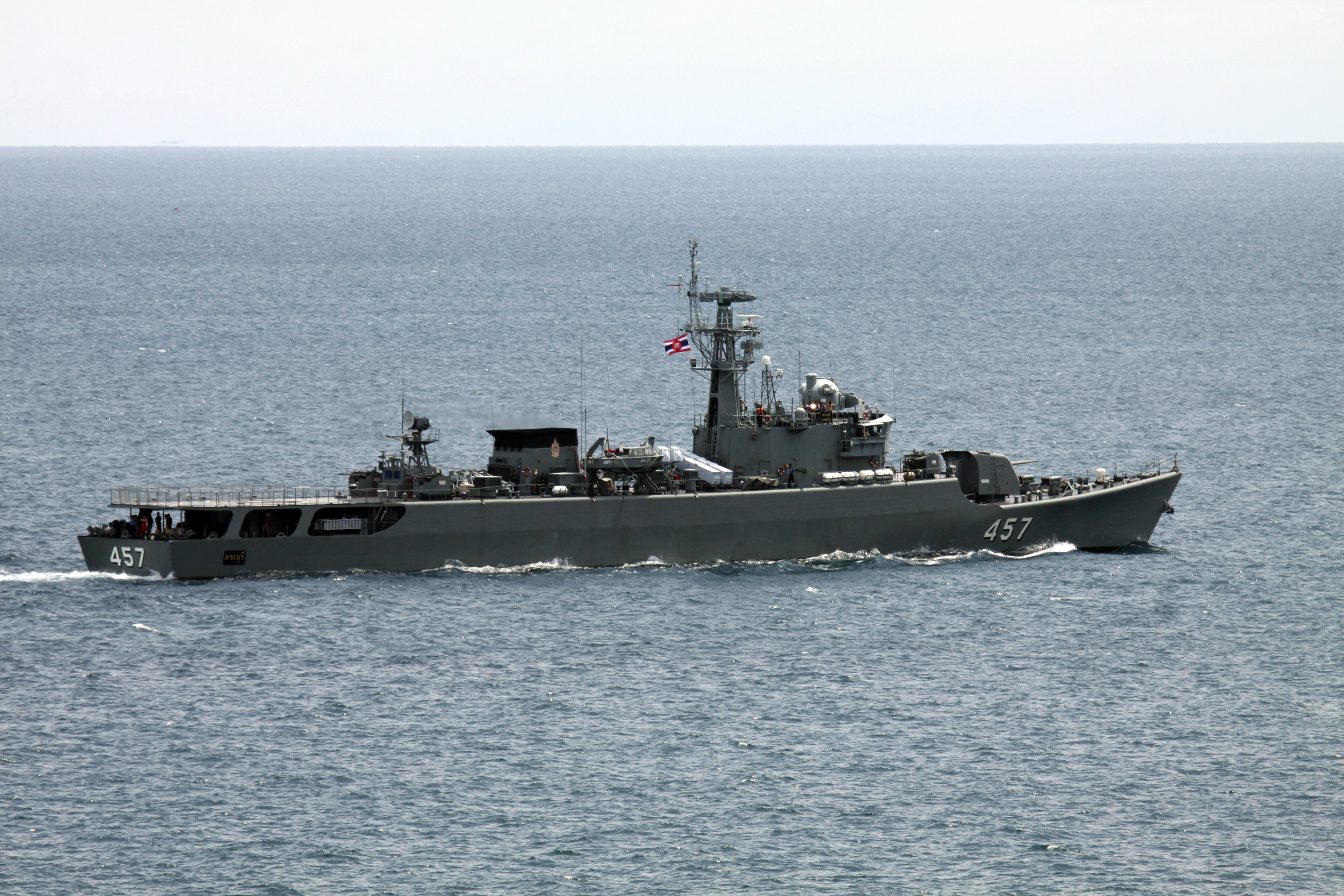 PACIFIC OCEAN (Oct. 7, 2010) The Royal Thai Navy frigate HTMS Kraburi (FF47) signals to the aircraft carrier USS George Washington (CVN 73) during a Morse code drill between the aircraft carrier USS George Washington (CVN 73) and the Royal Thai Navy. George Washington, the Navy's only permanently forward-deployed aircraft carrier, is underway helping to ensure security and stability in the western Pacific Ocean. (U.S. Navy photo by Mass Communication Specialist 3rd Class Stephanie Smith/Released)